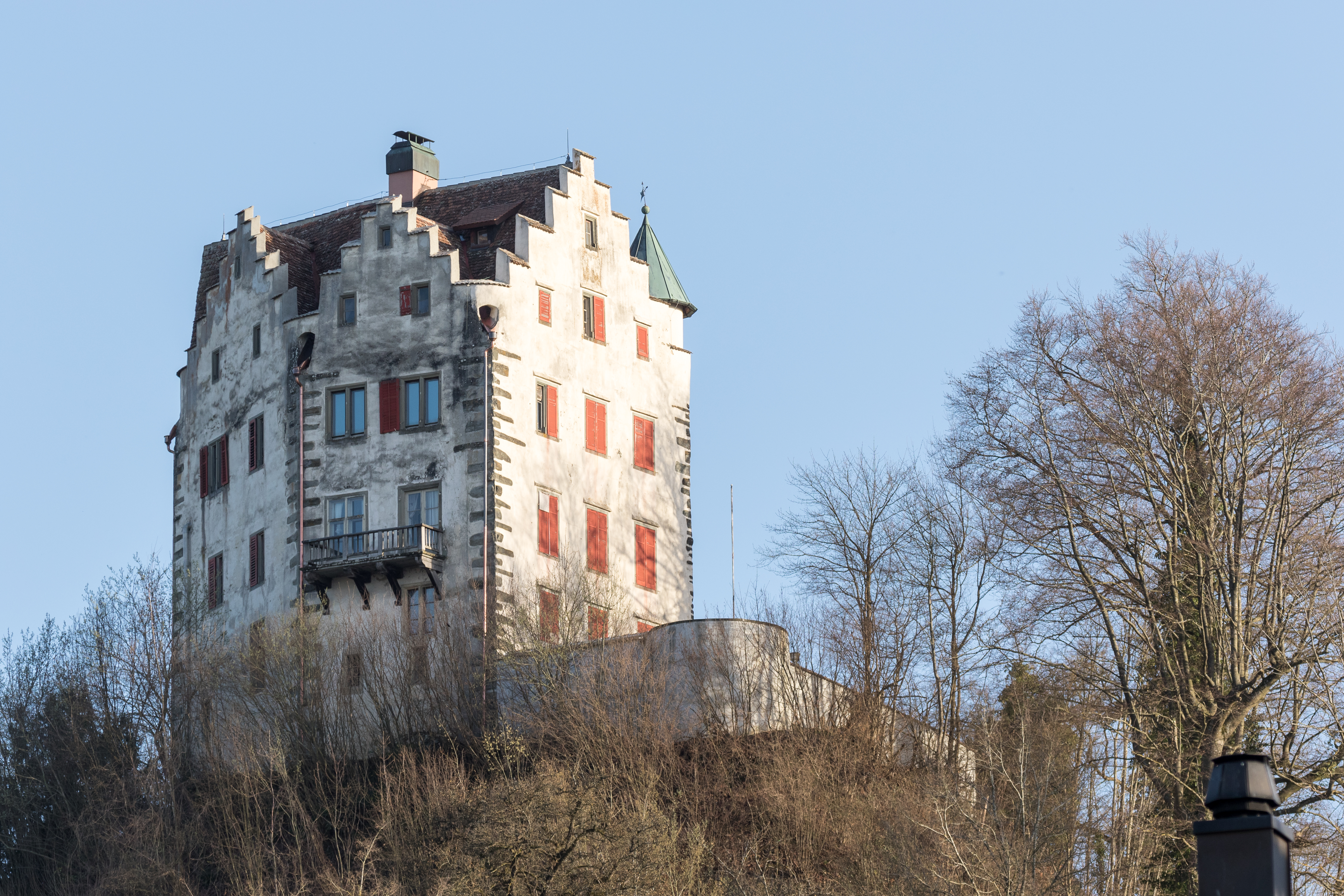 Salenstein castle at Lake Constance, canton of Thurgau, Switzerland.